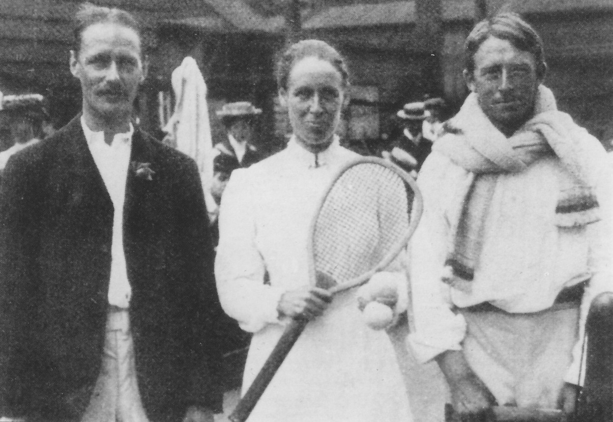 English tennis players Elsie Lane (center) and Major Josiah Ritchie (right). On the left Elsie's brother Ernest Wilmot Lane. Picture was taken at Hamburg-Uhlenhorst in 1904